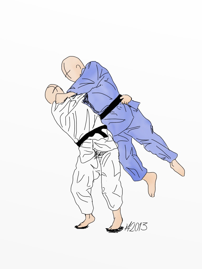 Illustration of the judo throw utsuri-goshi, or switching hip, in which you counter your opponents throw by lifting them and turning them over your hip.